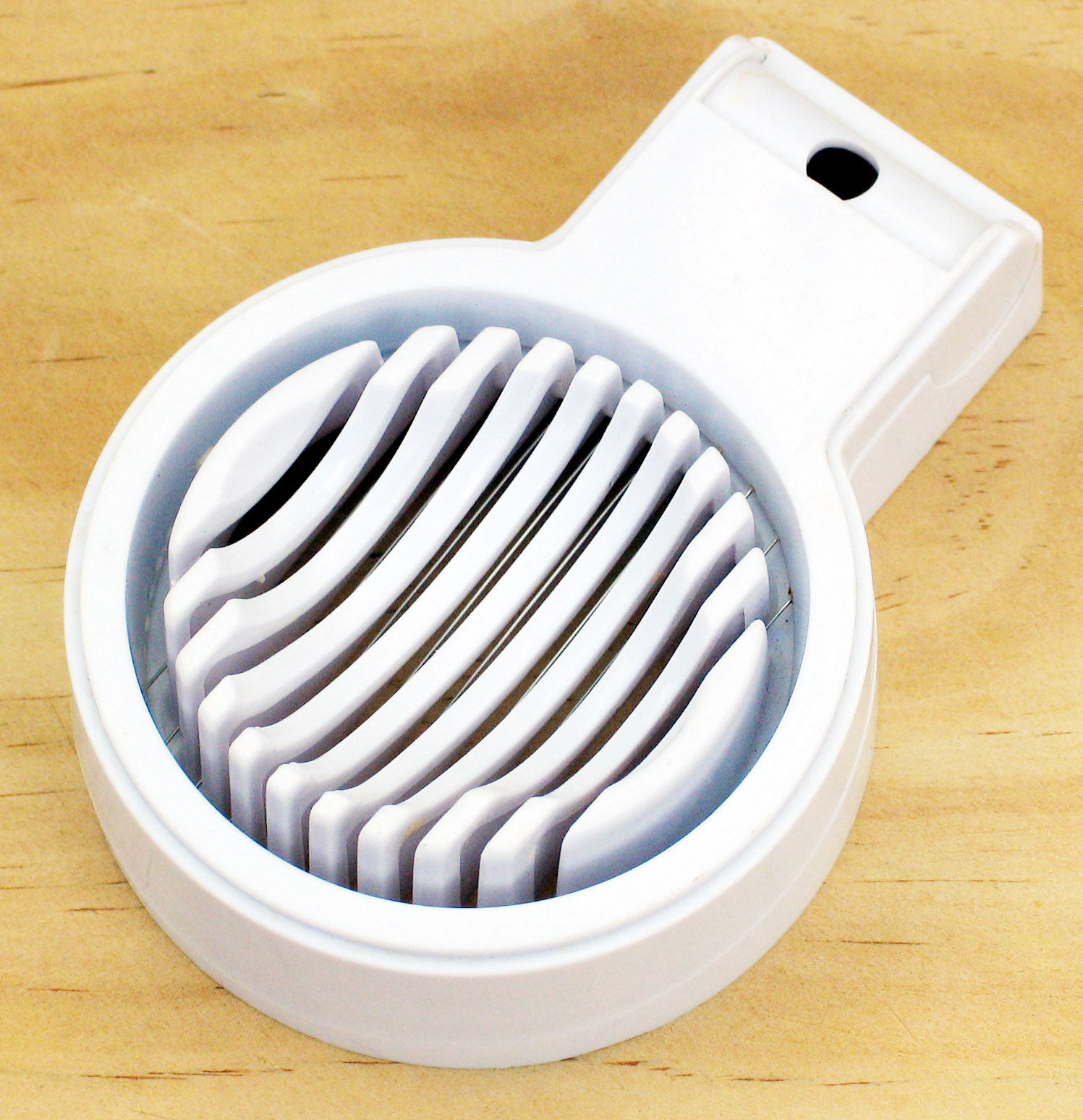 This is an egg slicer.